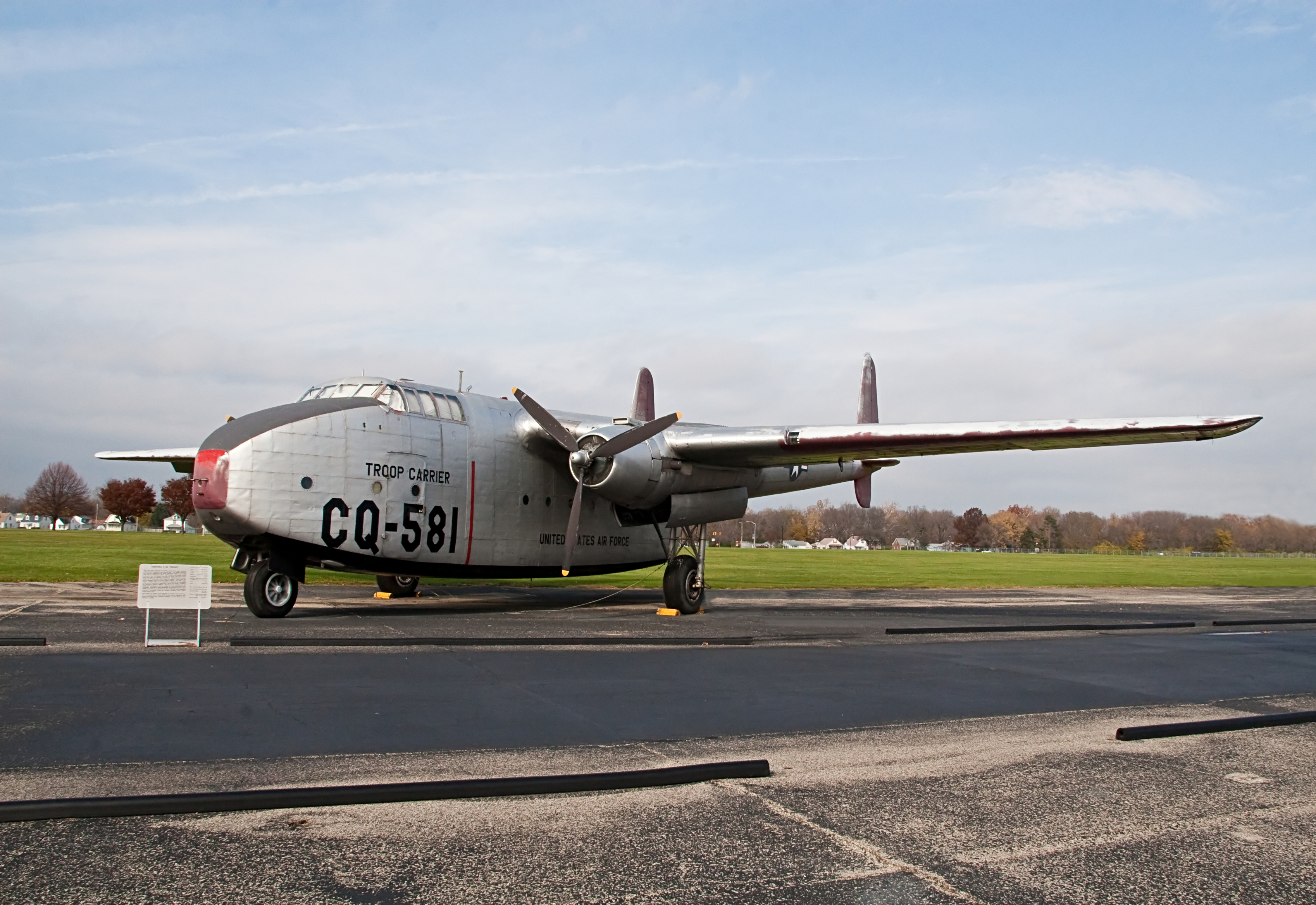 Fairchild C-82 Packet at the National Museum of the United States Air Force.